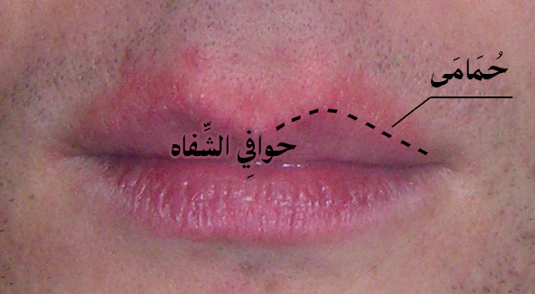 Erythema above the lips, appeared concomitantly with chapped lips due to exposure to very cold temperature.